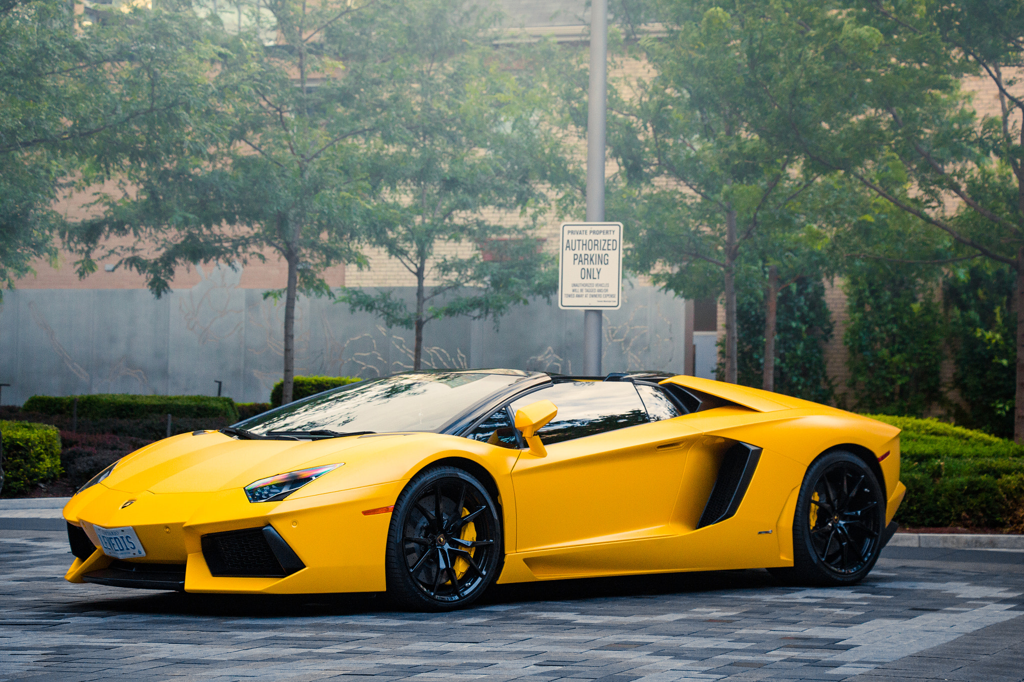 500px provided description: Giallo [#summer ,#supercar ,#yorkville ,#Photography ,#Car ,#Toronto ,#Exotic ,#Yellow ,#Automotive ,#Lamborghini ,#Aventador ,#Matte ,#toronto car spotting ,#canadian car spotting]